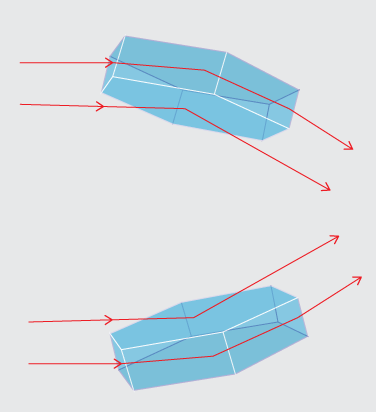 Reflection of light rays on ice platelets. Reflected rays form upper and lower sun pillar.